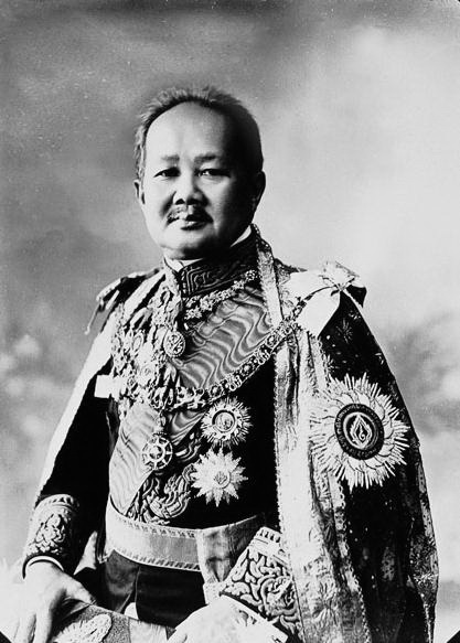 Photograph of Prince Devan Uthayavongse, Prince of Siam. Son of King Mongkut (Rama IV) and half brother of King Chulalongkorn (Rama V).